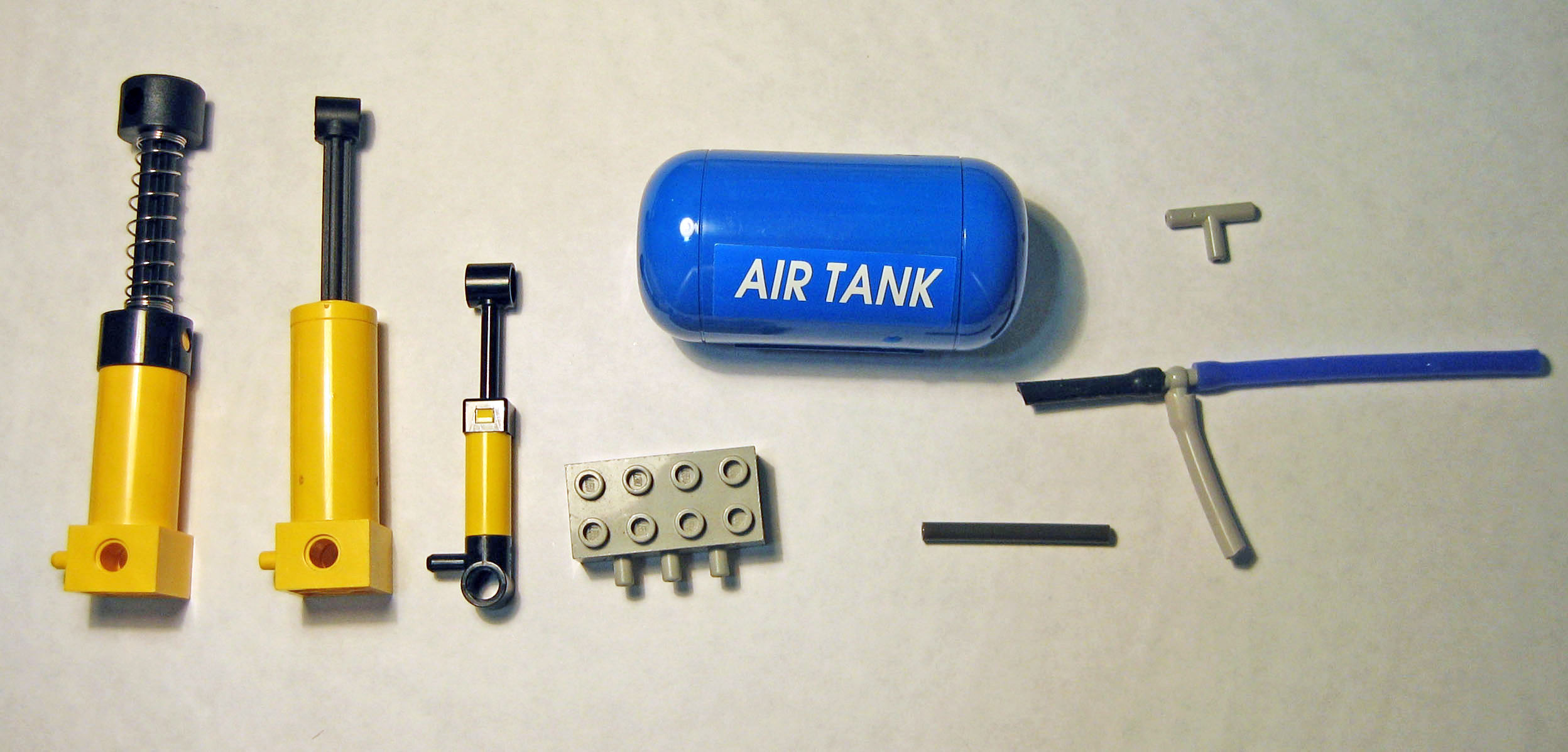 Collection of LEGO pneumatic components. Photo taken by Warwick Penn Bradly on 4 April 2006 using a Canon A95